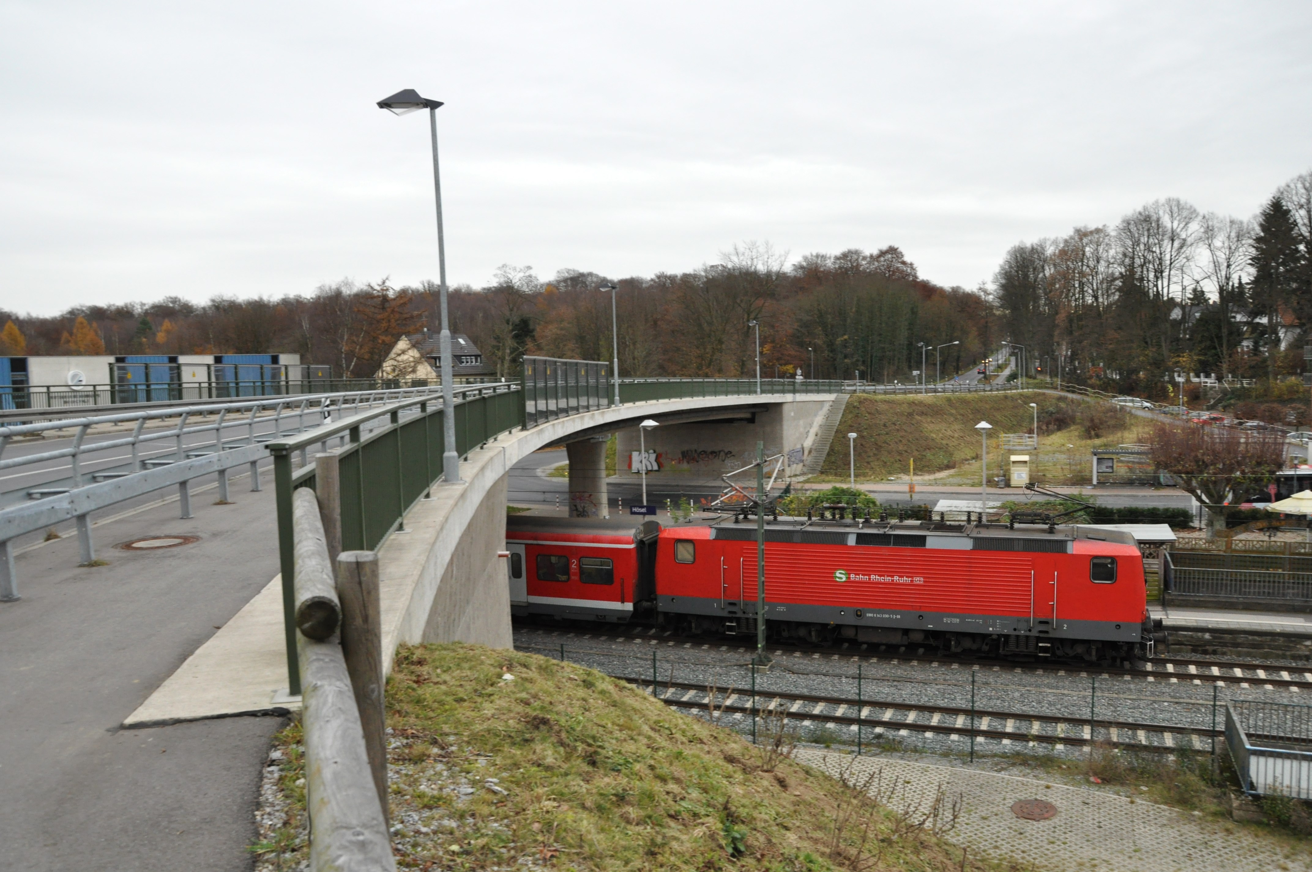 143 030 in Hösel.